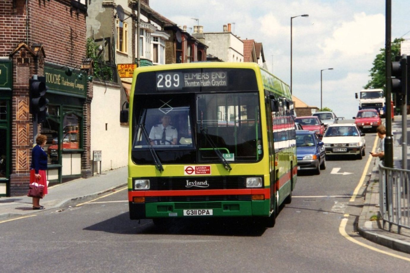 London & Country 311 (G311 DPA), a Leyland Lynx in the company's popular two-tone green and red livery, at Purley in December 1993. This and L&C's other Lynxes moved to the new LondonLinks company a year later, and have since been withdrawn by the company's successor, Arriva Guildford & West Surrey.